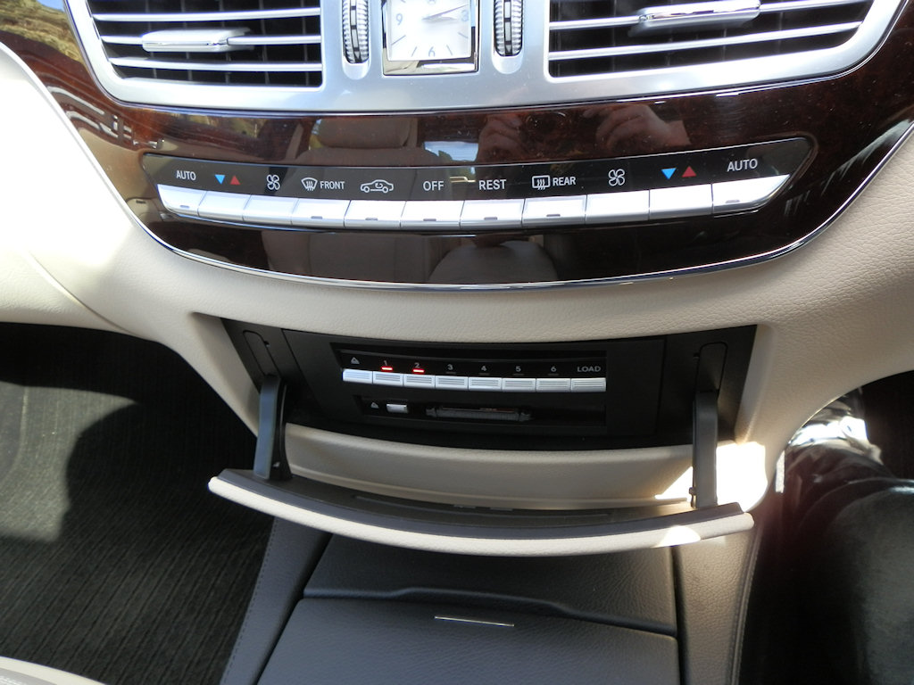 View of the centre console of a 2007 S500 Mercedes-Benz W221, showing the centre vents, climate control controls and the DVD changer with CompactFlash card reader.